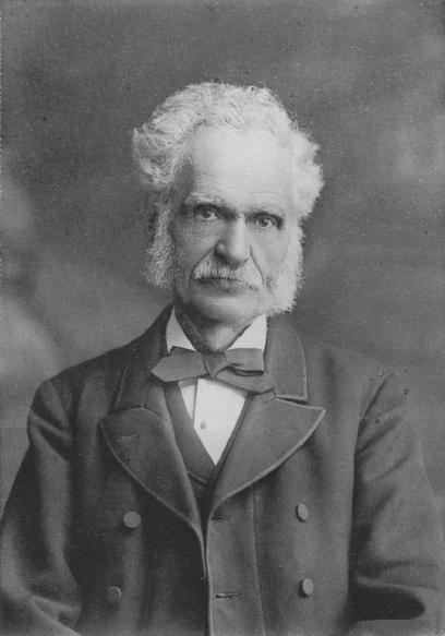 A photograph of Henry Walter Bates.